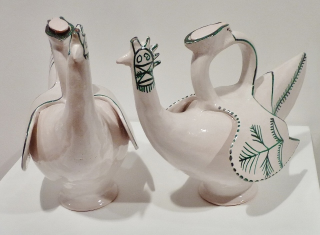 Traditional earthenware (20st century) from Faro (Oviedo, Asturias), Spain.